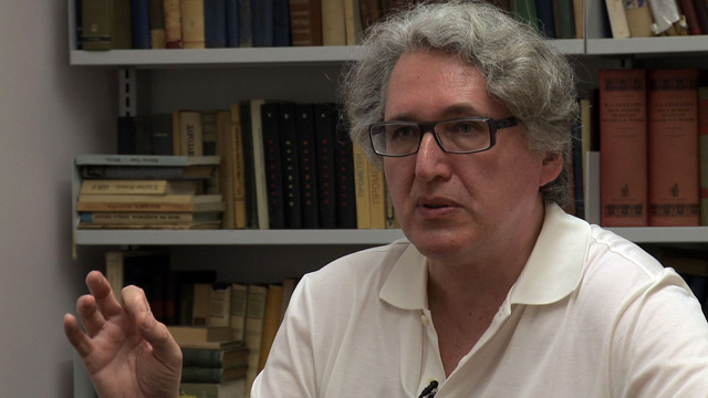 Philosopher and art critic Boris Groys. Still image from the 2010 documentary "The Future of Art" by Erik Niedling and Ingo Niermann.